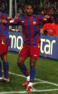 Samuel Eto'o in 2005, during a match F.C Barcelona vs Celta de Vigo.